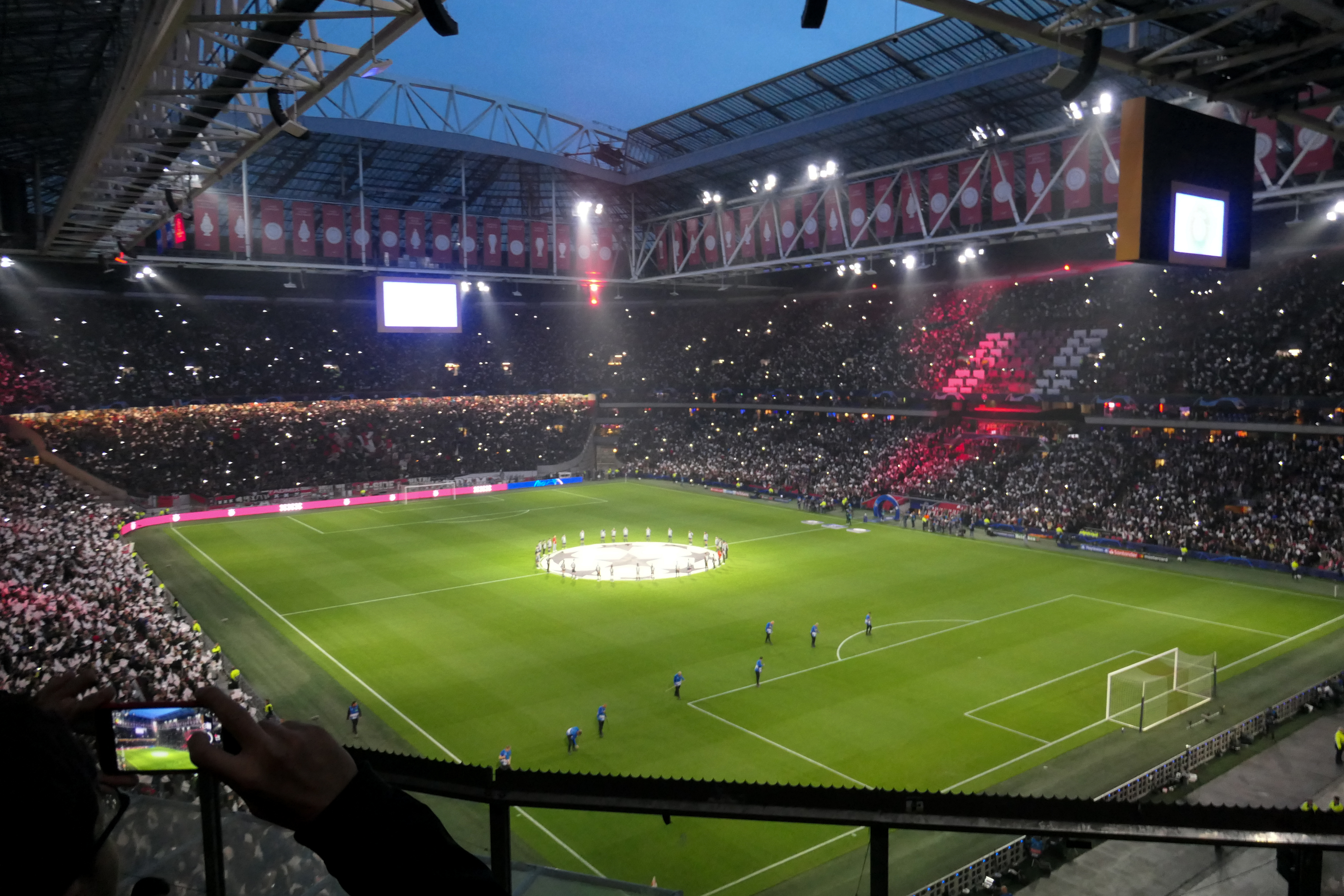 The Johan Cruyff Arena on 23 October 2019